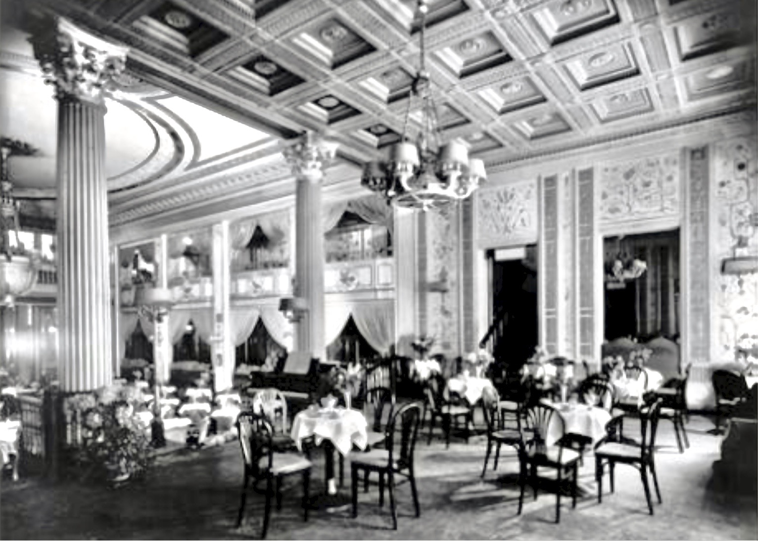 Partial inside view of Café Wien at Kurfurstendamm in Berlin, Germany